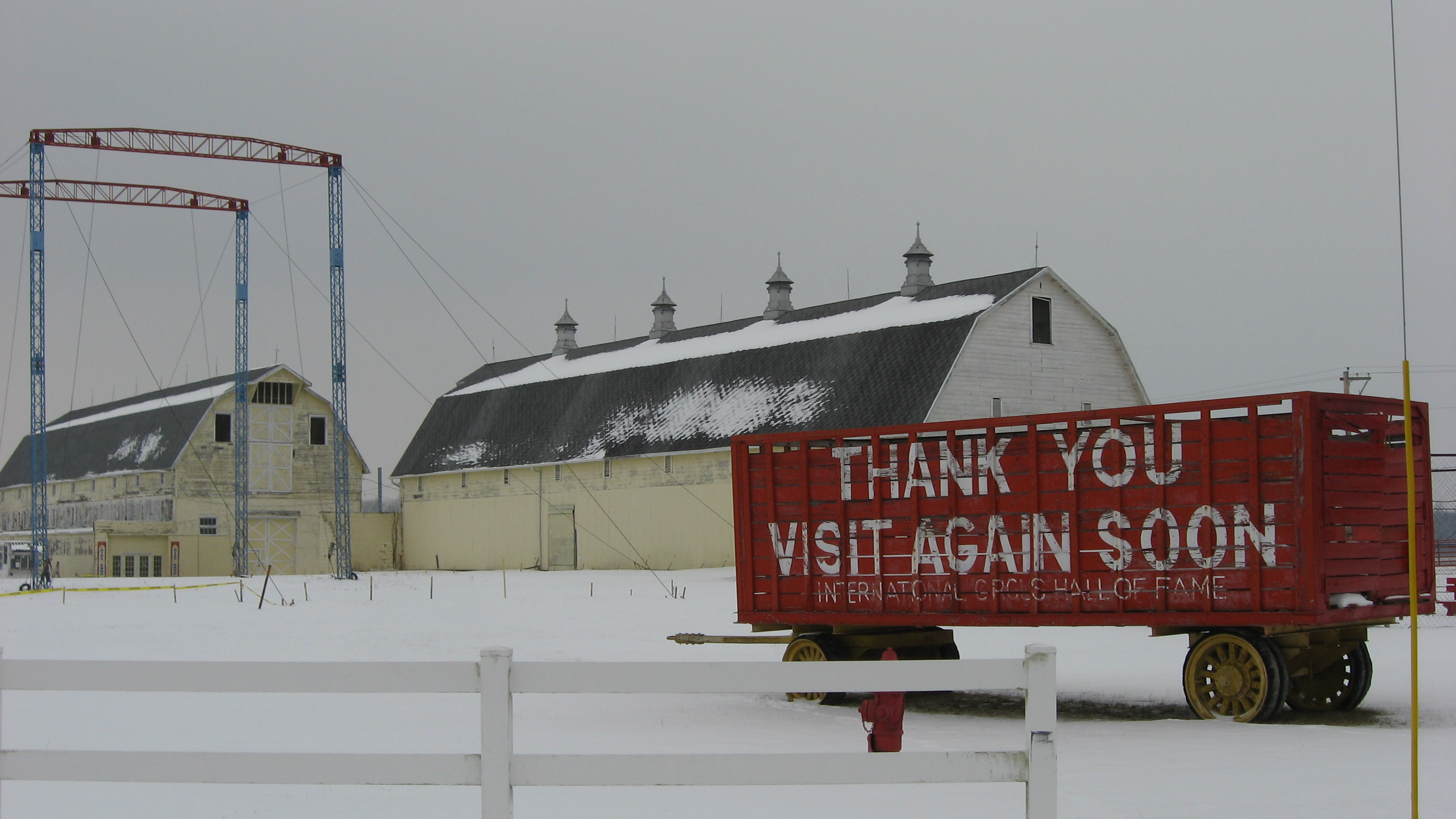 Barns and a railroad car at the Wallace Circus Winter Headquarters (now the International Circus Hall of Fame), located on the northern side of Old State Road 124 east of Peru in Butler Township, Miami County, Indiana, United States. The complex has been designated a National Historic Landmark.